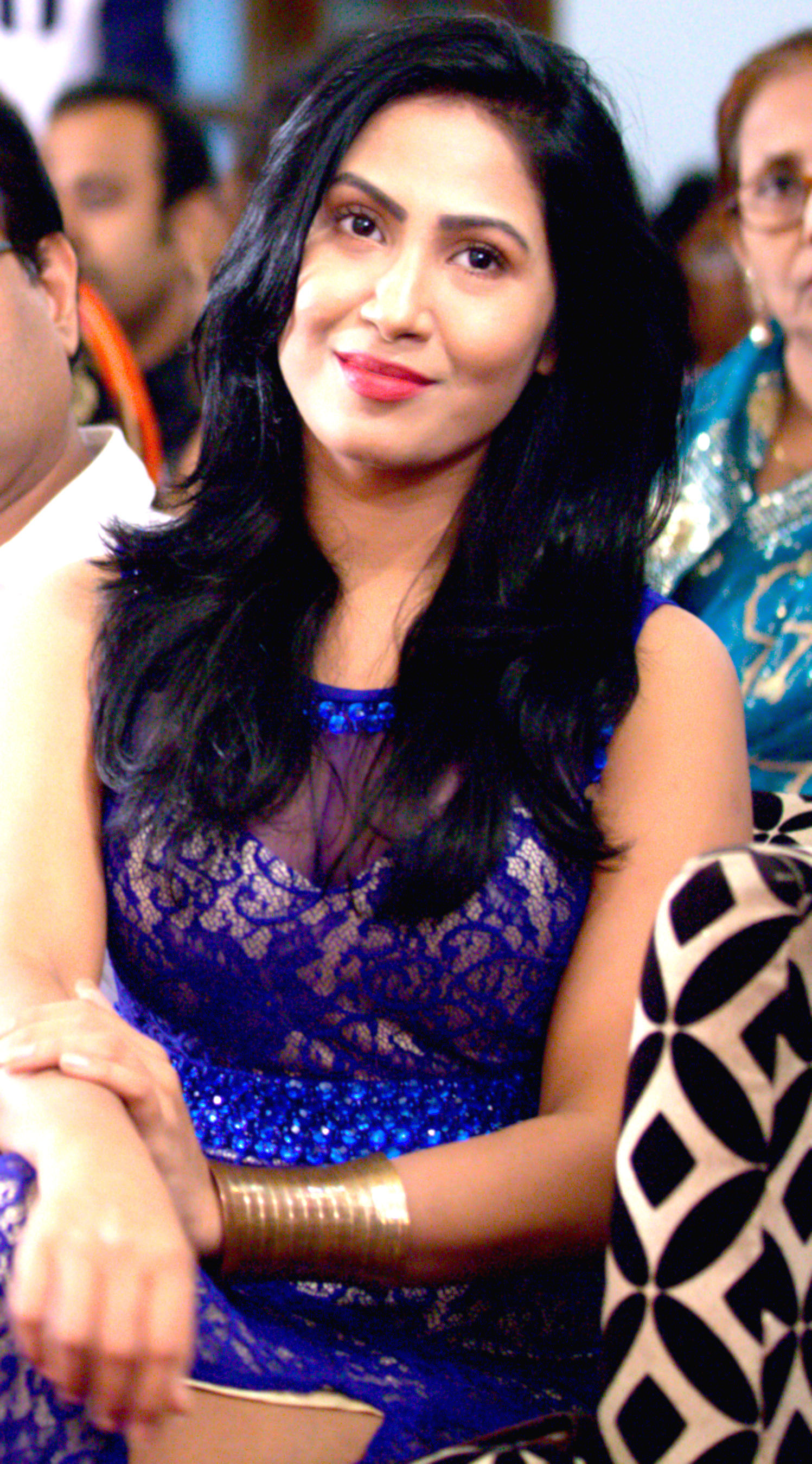 Alisha Pradhan at the Audio launch of her Debut movie "Antaranga", october 2015